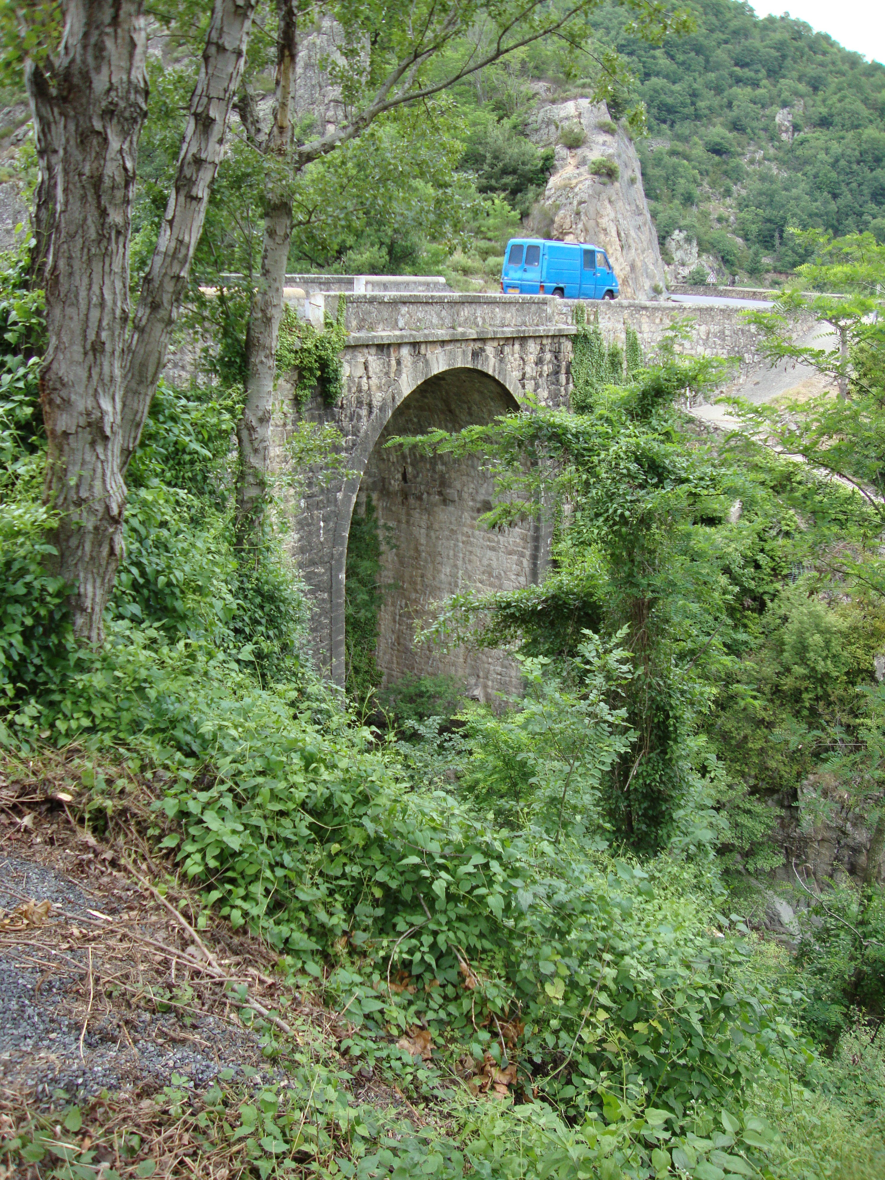 Beauvène (Ardèche, Fr) Pont du Talaron